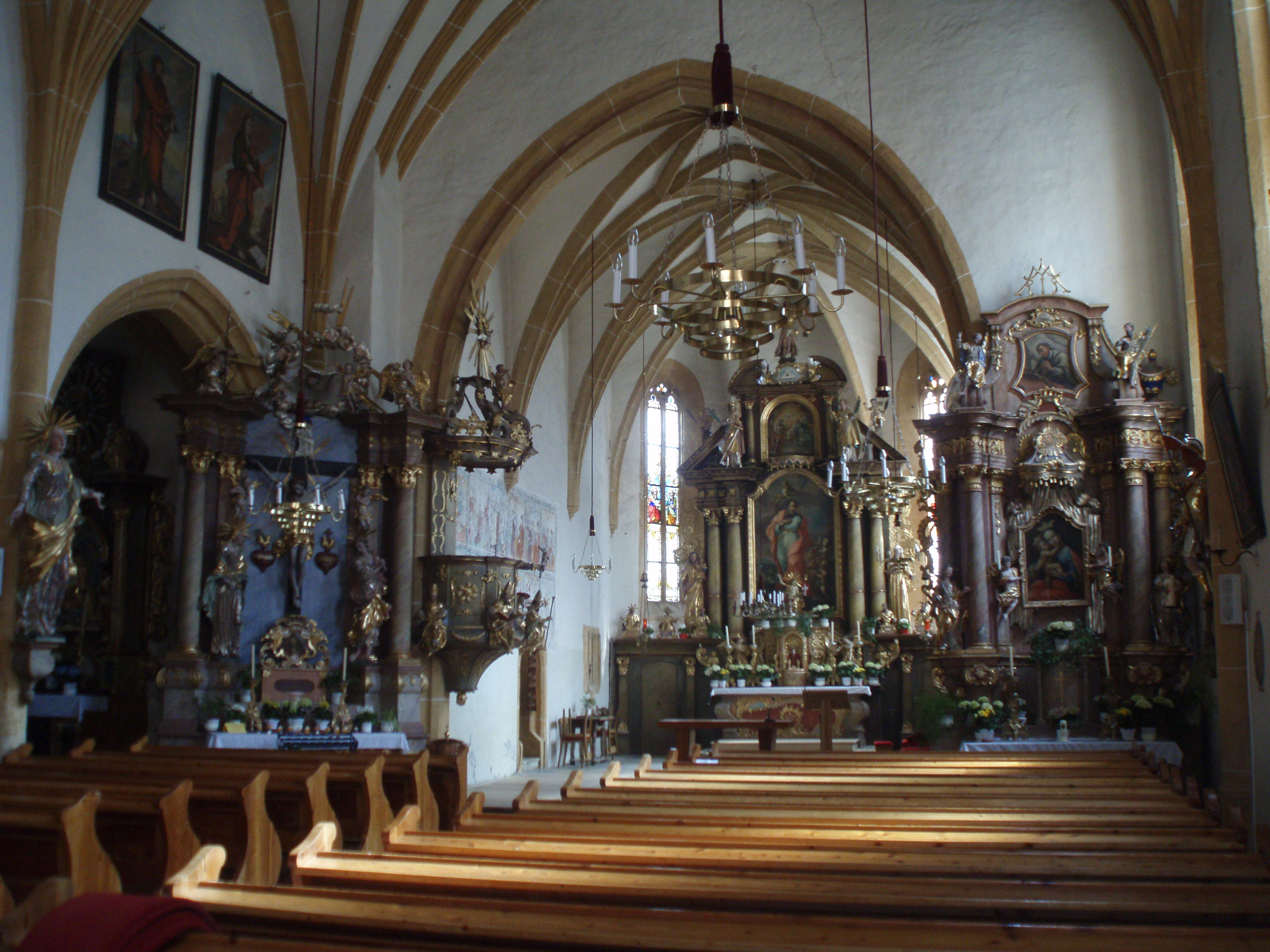 Kath. Pfarrkirche hl. Bartholomäus